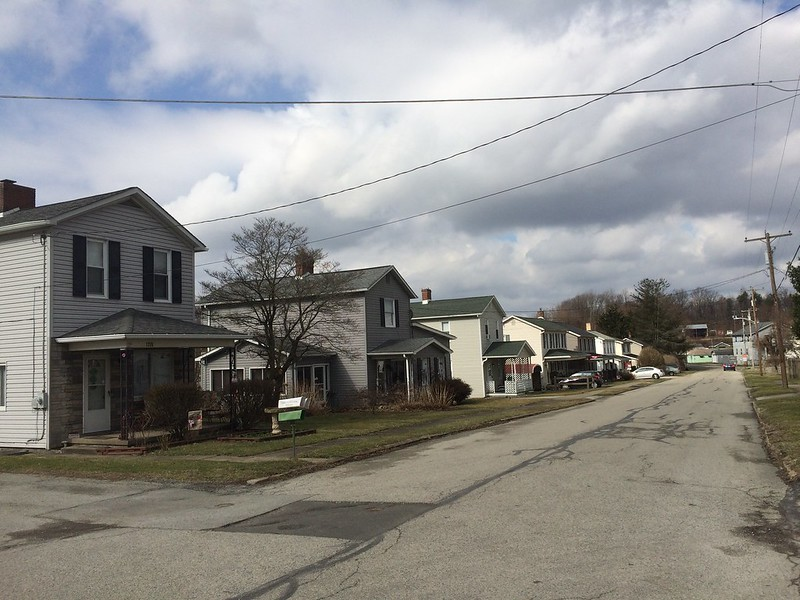 Houses believed to be built for employees of Bradenville Mine & Coke Works circa 1914.